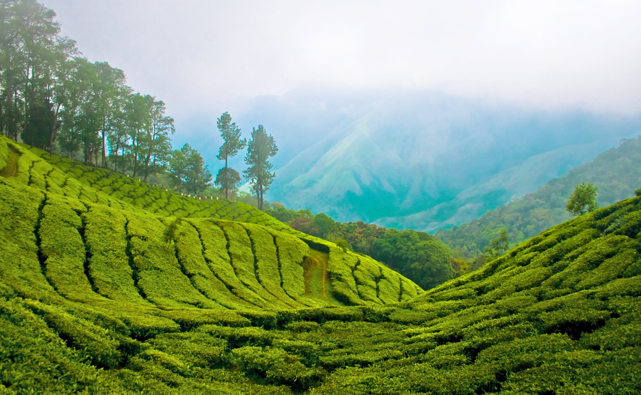 Top station, 41 km (1hr) from Munnar is aptly named, as it is home to some of the highest tea plantations in India. It lies on the state border between Kerala and Tamilnadu and commands a panoramic view of rolling green hills.